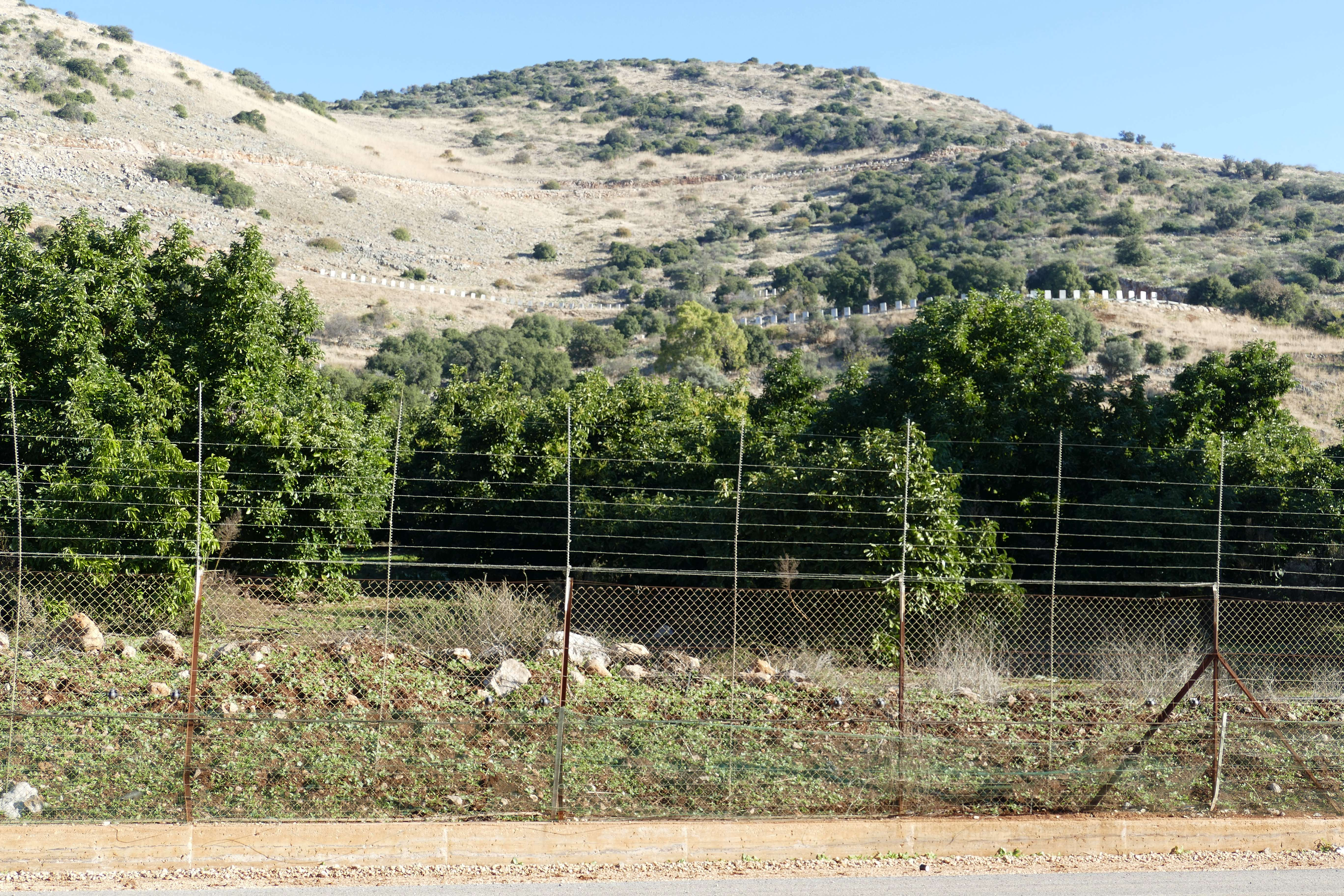 Road to Mount Dov, Israel.